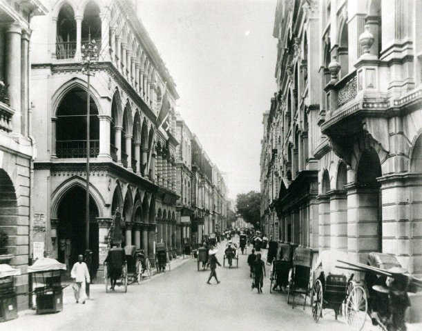 Queen's Road Central, Duddell Street on the left, c1900